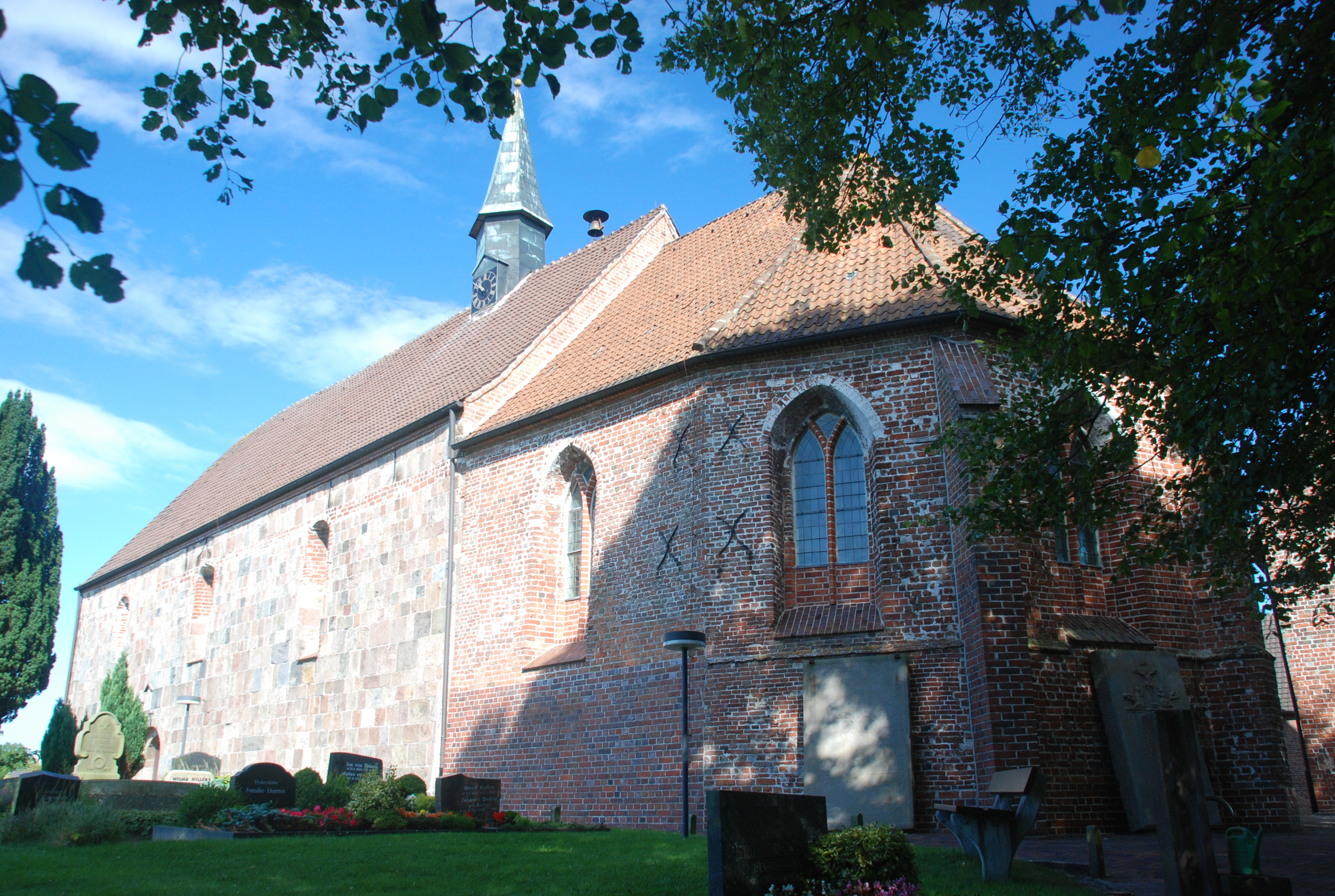 Church of Wiarden in Wangerland (From East)